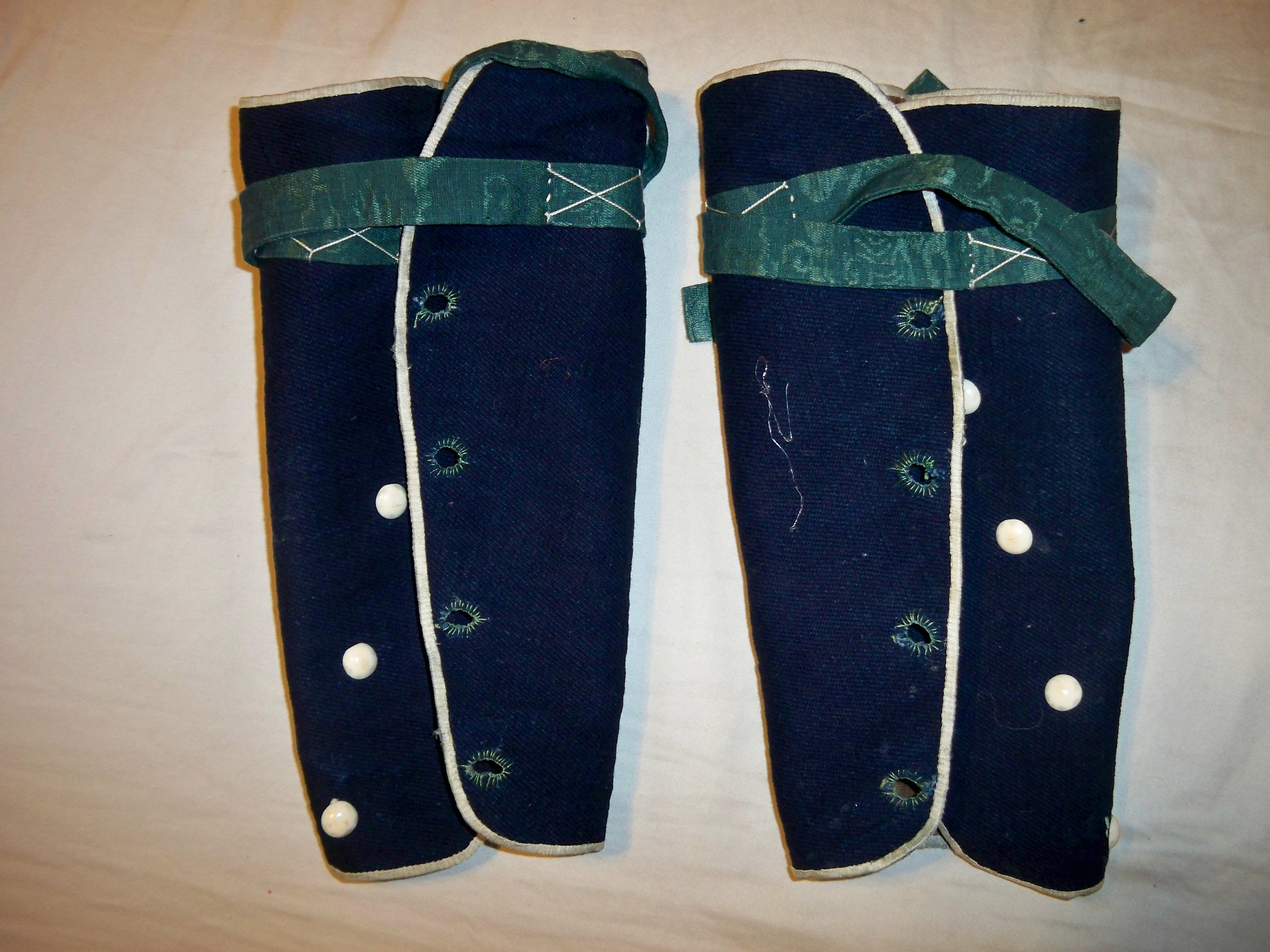 Antique Japanese kyahan or kiahan.